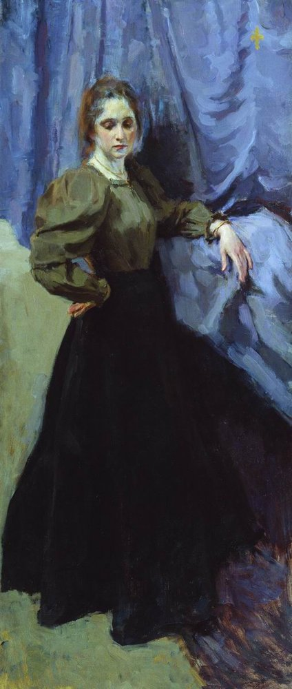 Portrait of E. M. Martynova